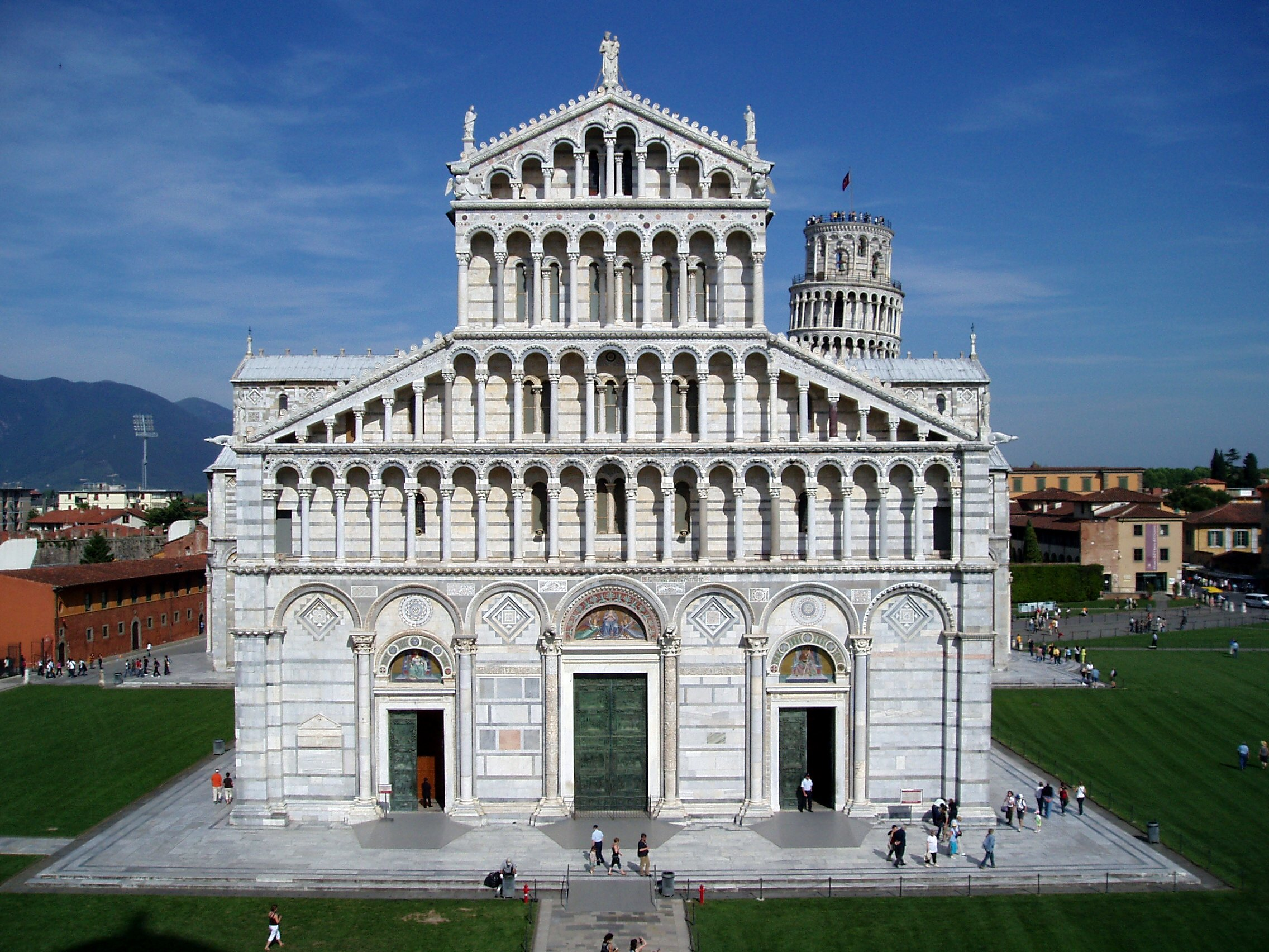 The Duomo of Pisa, Pisa, Italy